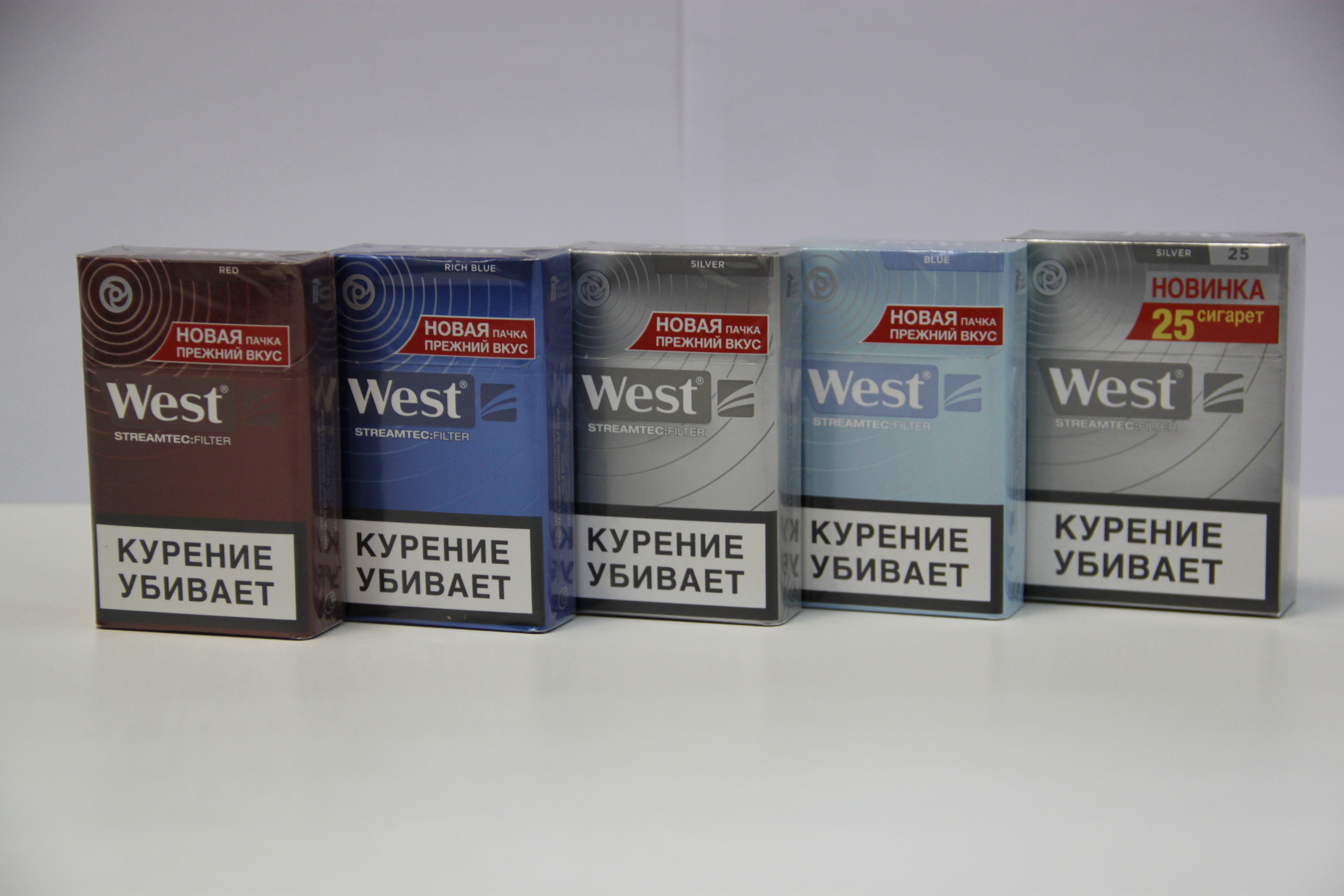 Сигареты West